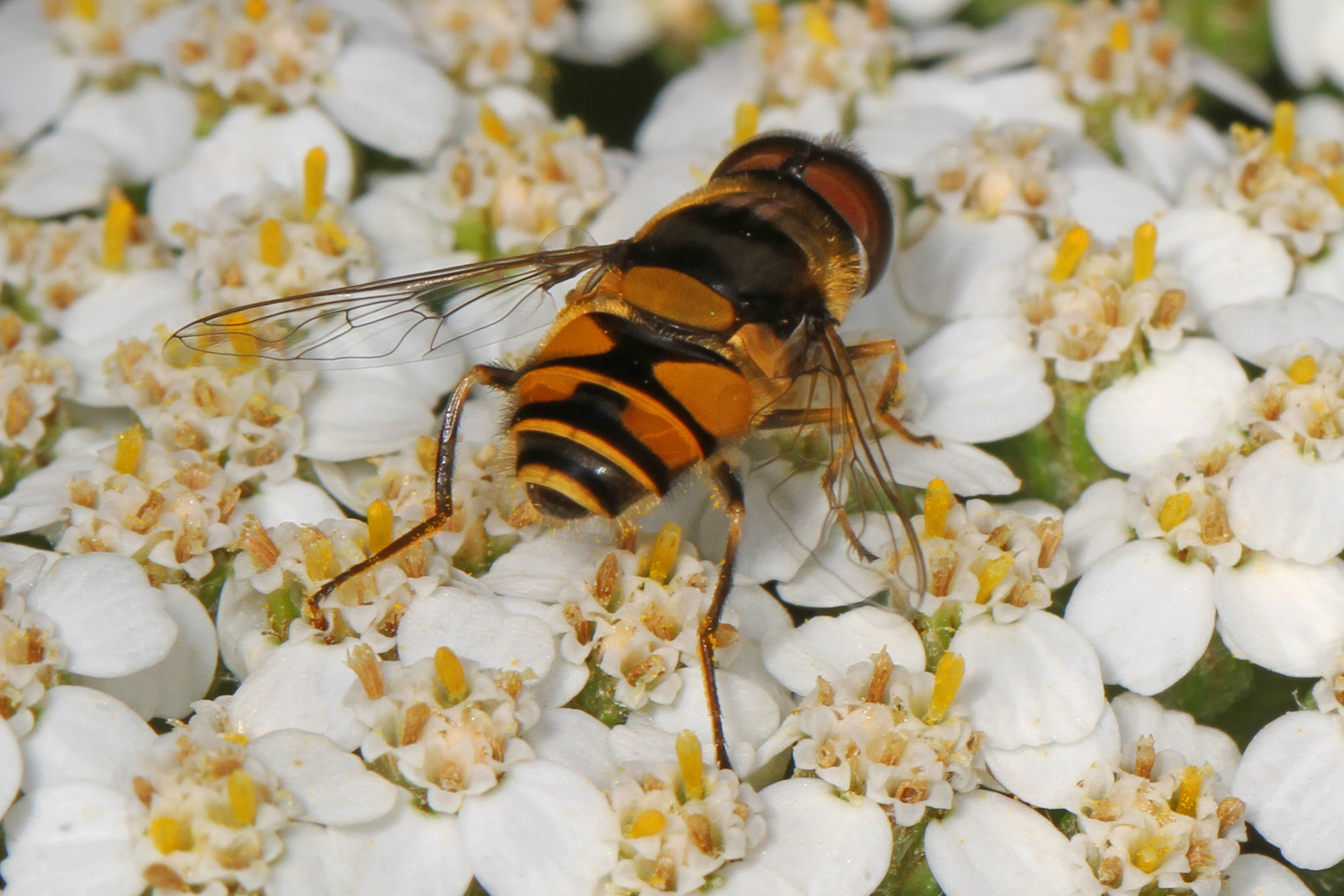 Transverse Flower Fly - Eristalis transversa, Merrimac Farm Wildlife Management Area, Aden, Virginia.